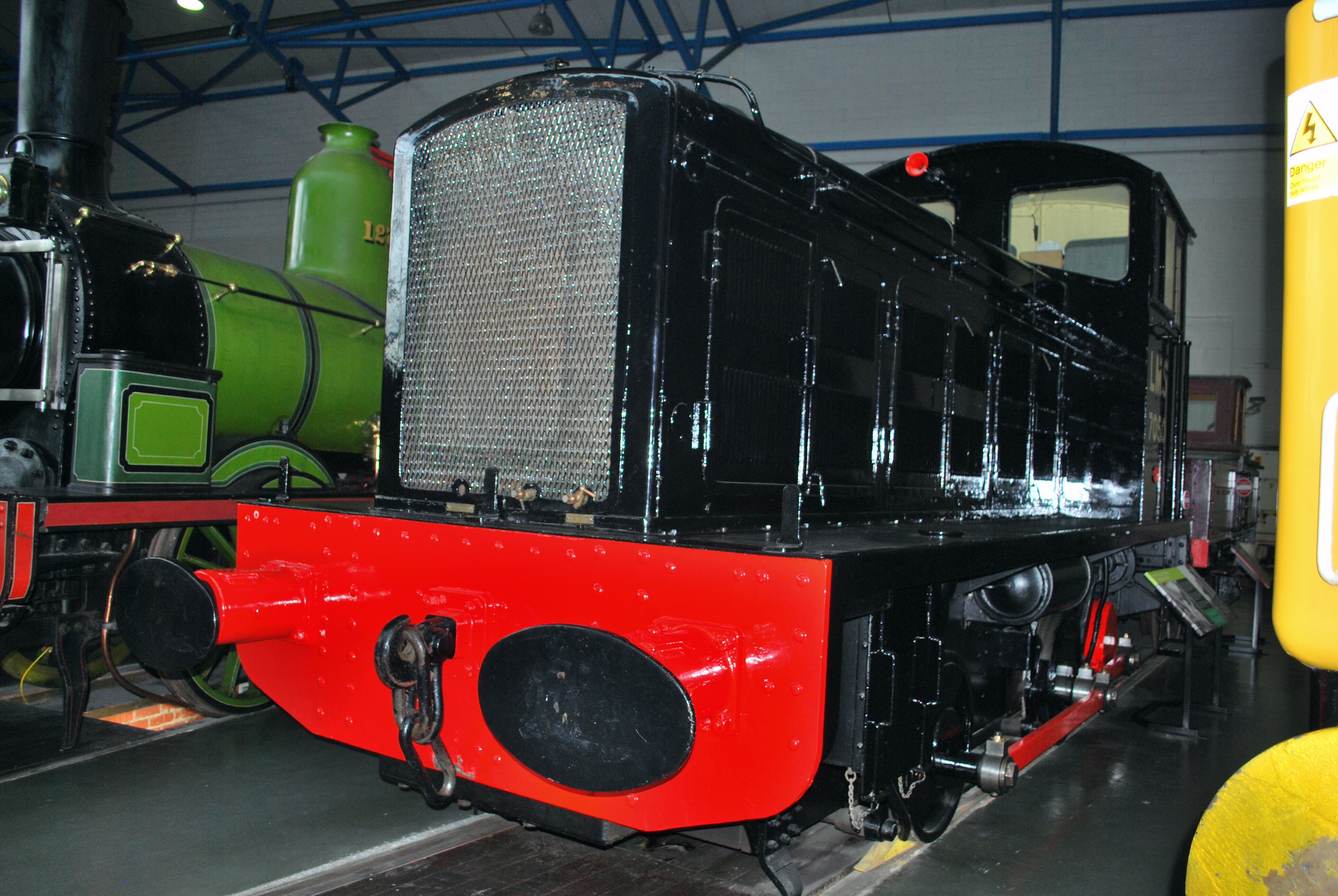 Preserved LMS 0-4-0 diesel mechanical shunter No.7050 Drewry design built by English Electric, Preston in 1934 for LMS but in WWII taken over by WD (as Nos.846, 70224 and finally 224) . Drewry Works No.2047; EE Works No.847. Built with an Allan 8RS18 engine of 160 hp, it was later refitted with a Gardner 6L3 of 153 hp. At NRM 9/10.